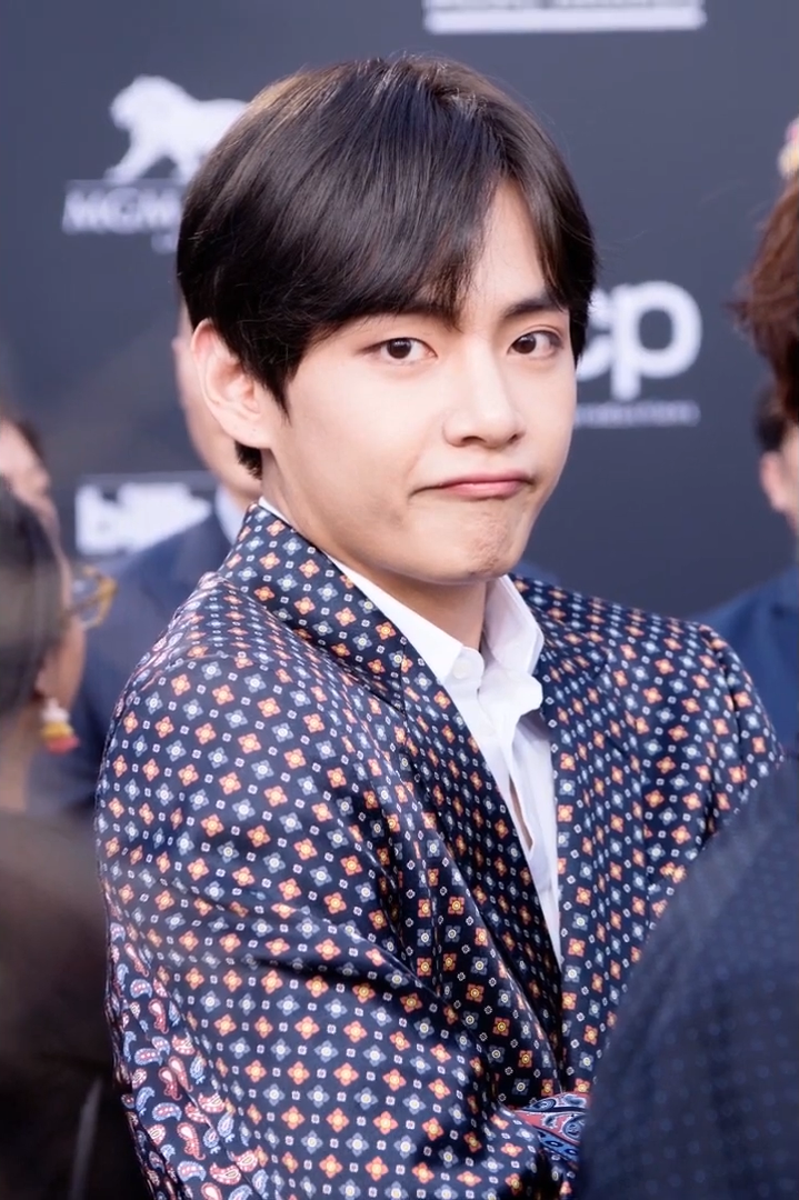 V at the 2019 Billboard Music Awards, 1 May 2019